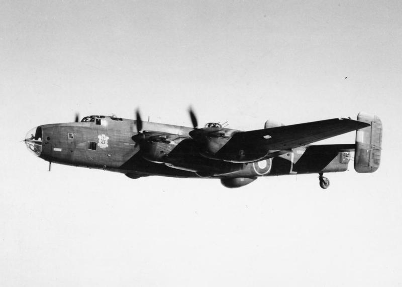 Aircraft of the Royal Air Force 1939-1945- Handley Page Hp.57 Halifax. Halifax Mark II Series 1A, HR928 ‘TL-L’, of No. 35 Squadron RAF based at Graveley, Huntingdonshire, being flown by Squadron Leader A P Cranswick., an outstanding Pathfinder pilot of No. 5 Group, Bomber Command, who was killed on the night of 4/5 July 1944 on his 107th mission. The Cranswick coat-of-arms decorates the nose just below the cockpit.